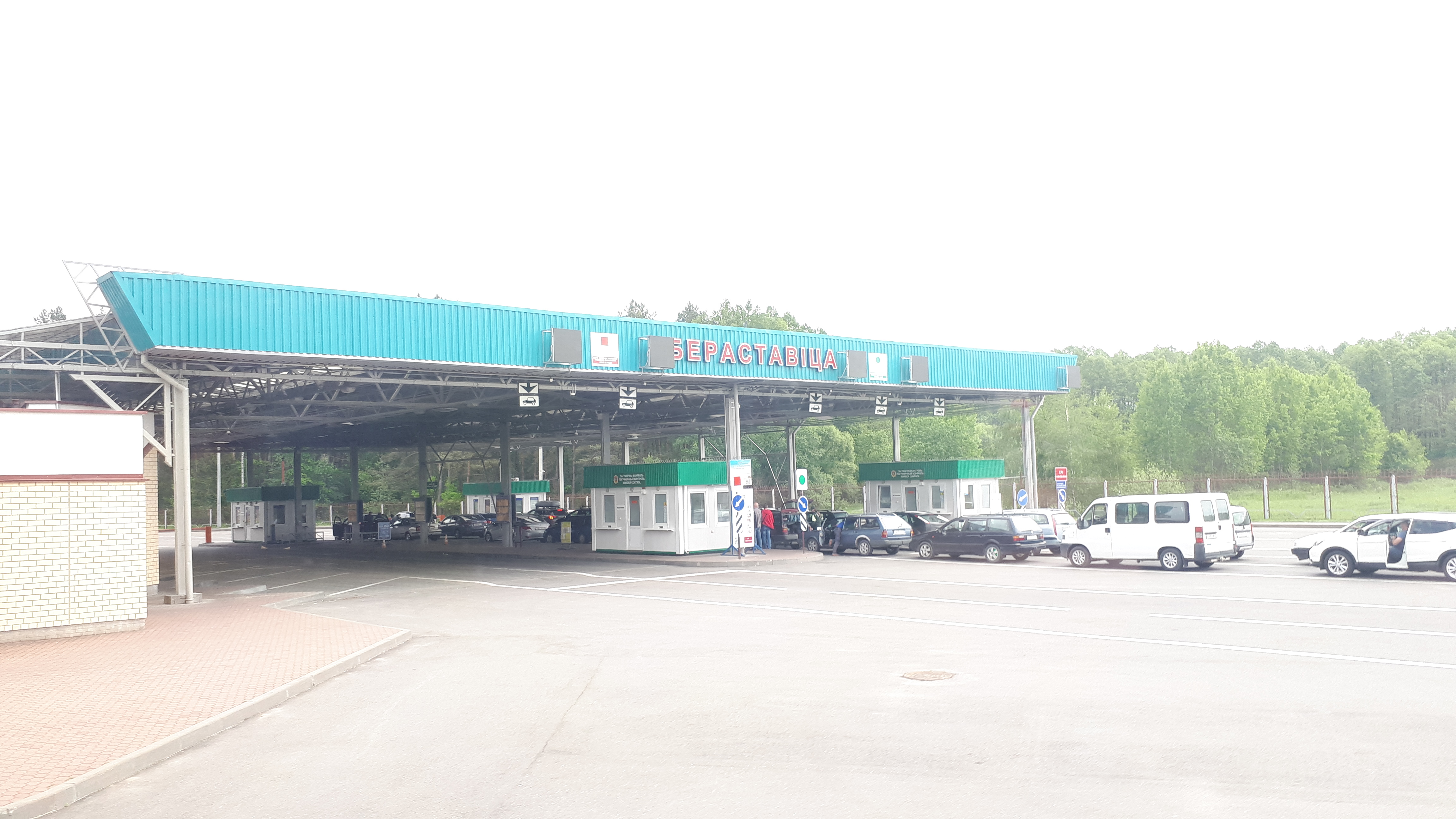 Berastavitsa-Bobrowniki border